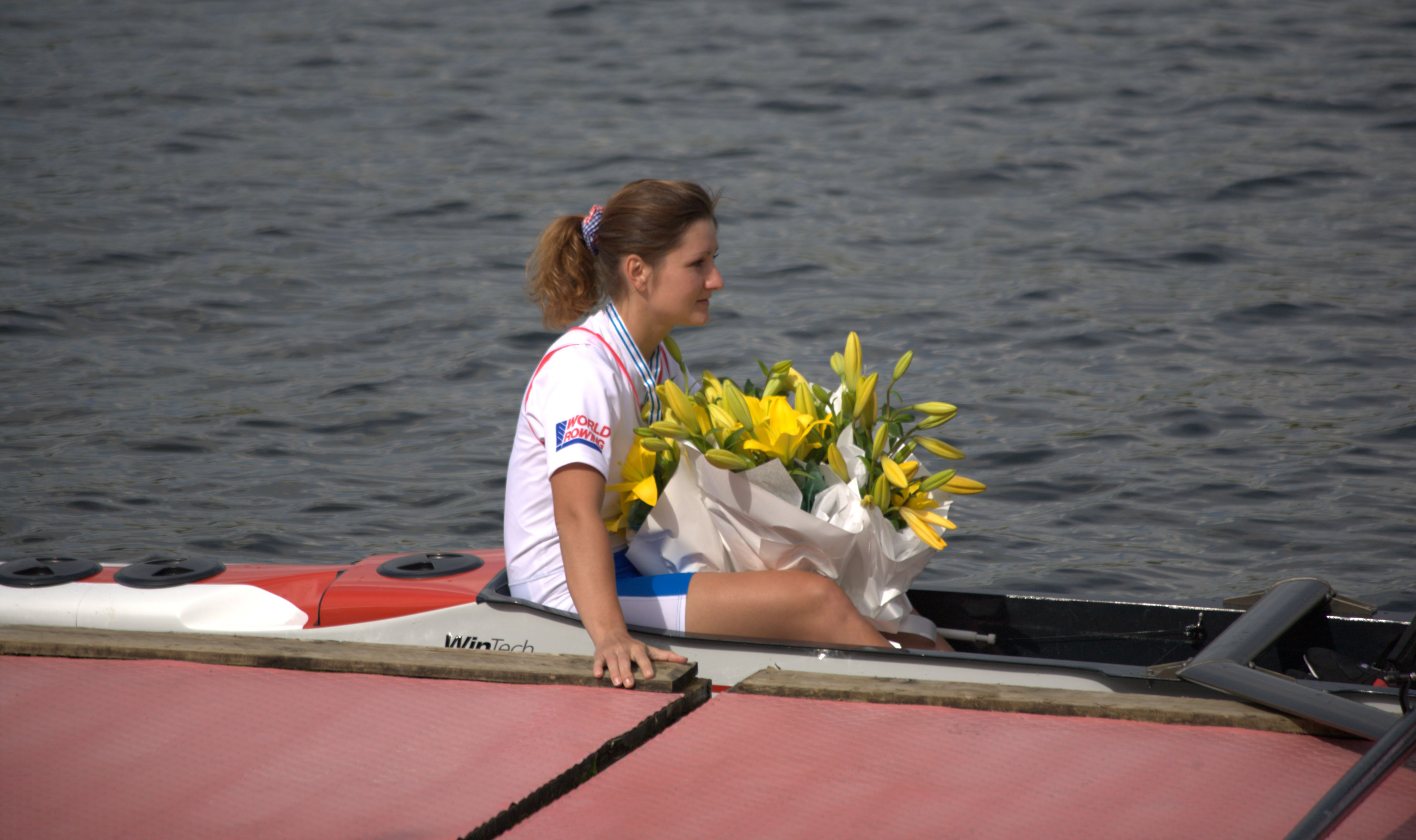 Russian IDMix4+ cox Irina Kostyukhina. 2010 World Rowing Championships.